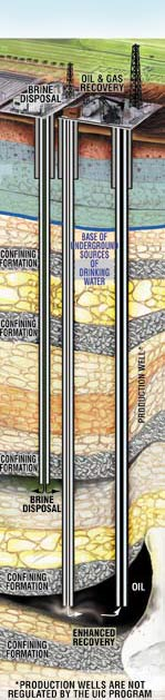 Illustration of an injection well used for enhanced oil recovery. Categorized as a "Class II Well" under the U.S. Safe Drinking Water Act.